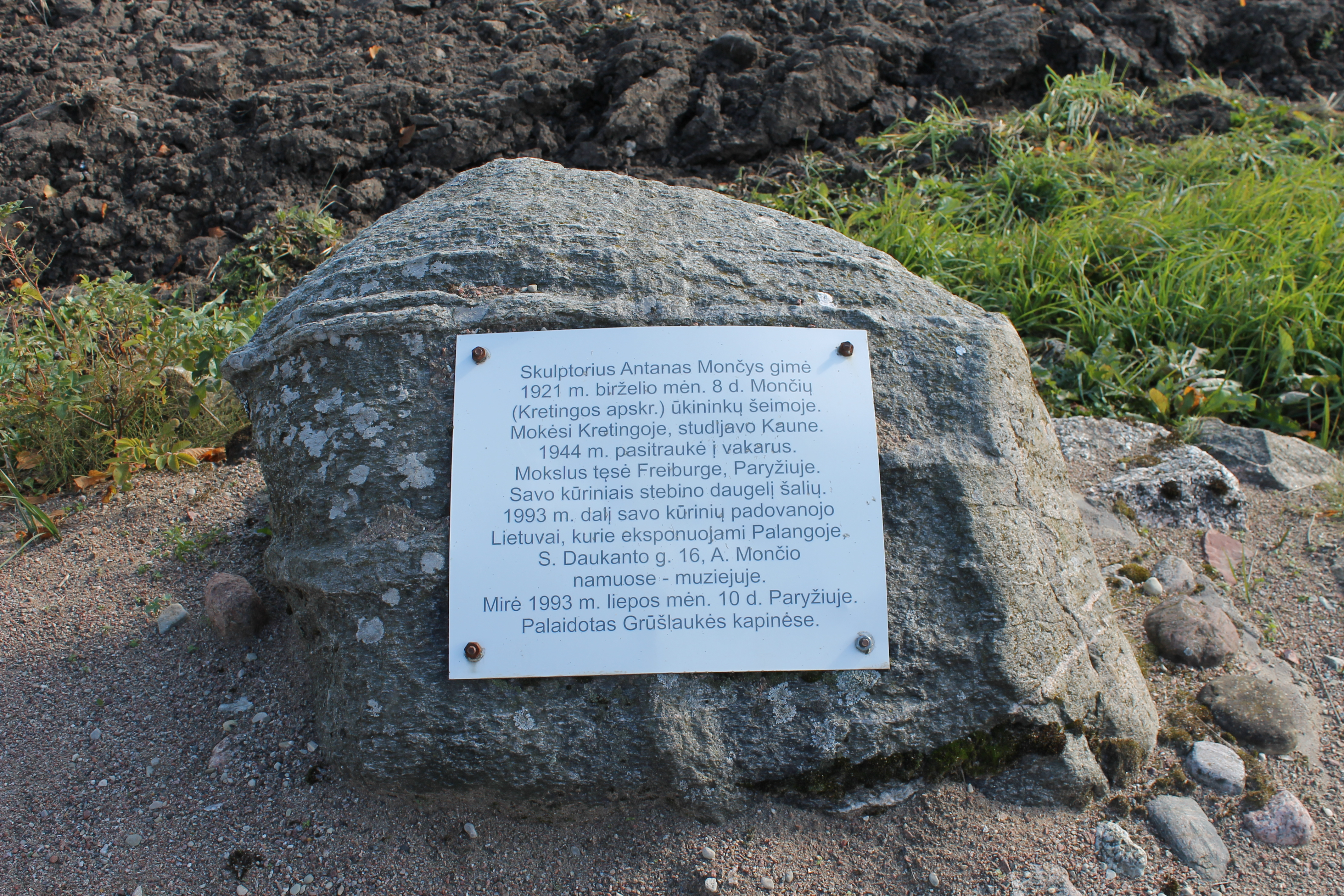 Mančiai monument, Kretinga district, LithuaniaLietuvių: Mončių paminklas, Kretingos rajonas, Lietuva